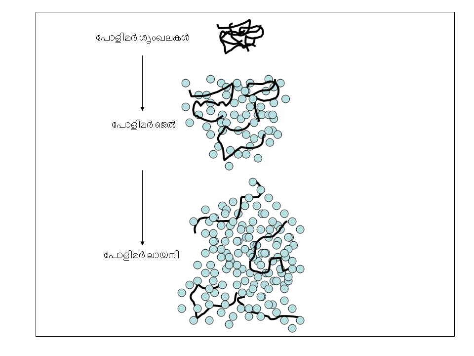 Polymer dissolution